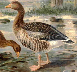 greylag goose Image from